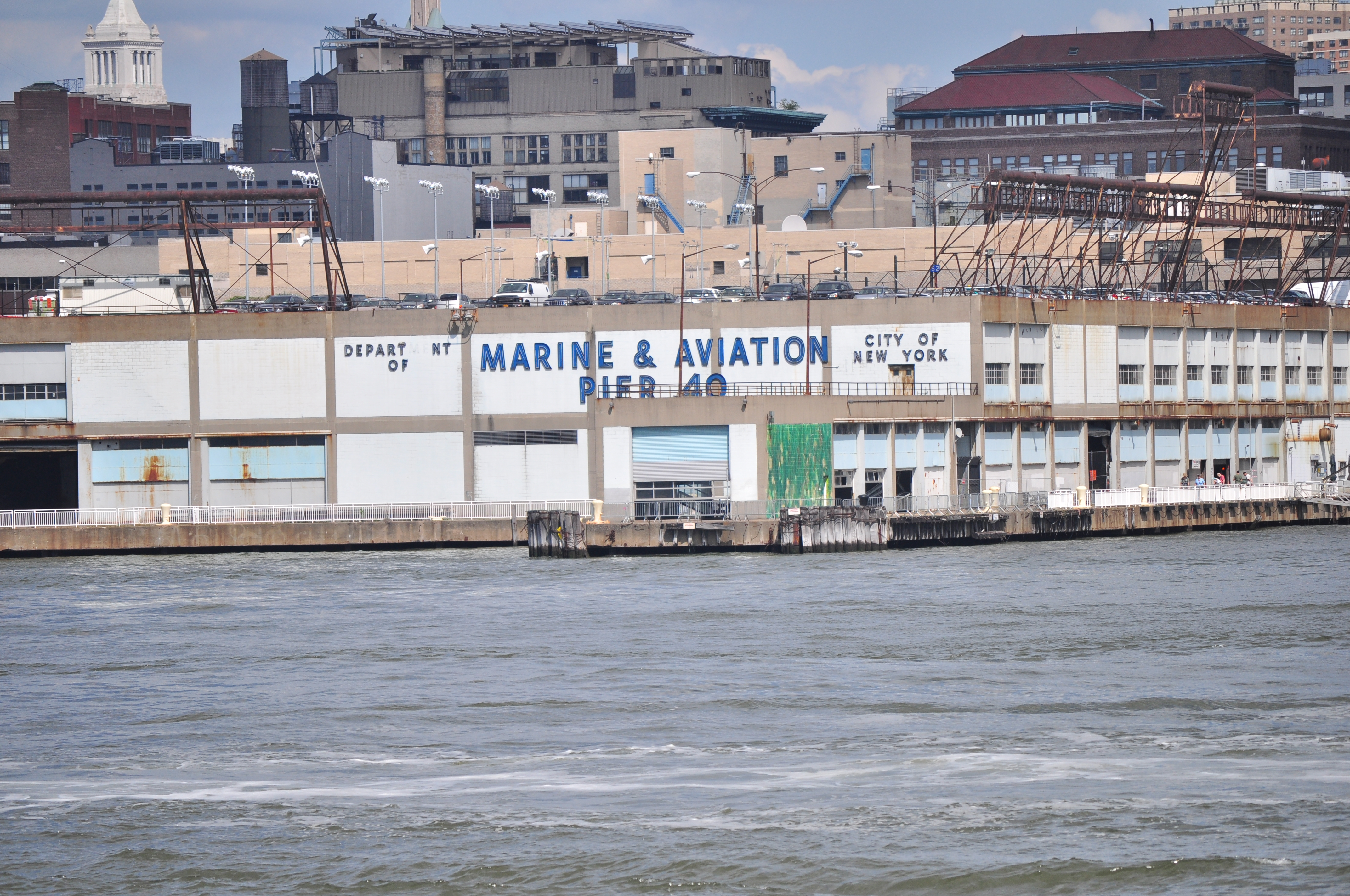 Pier 40, Manhattan seen from New York Water Taxi on the Hudson River.